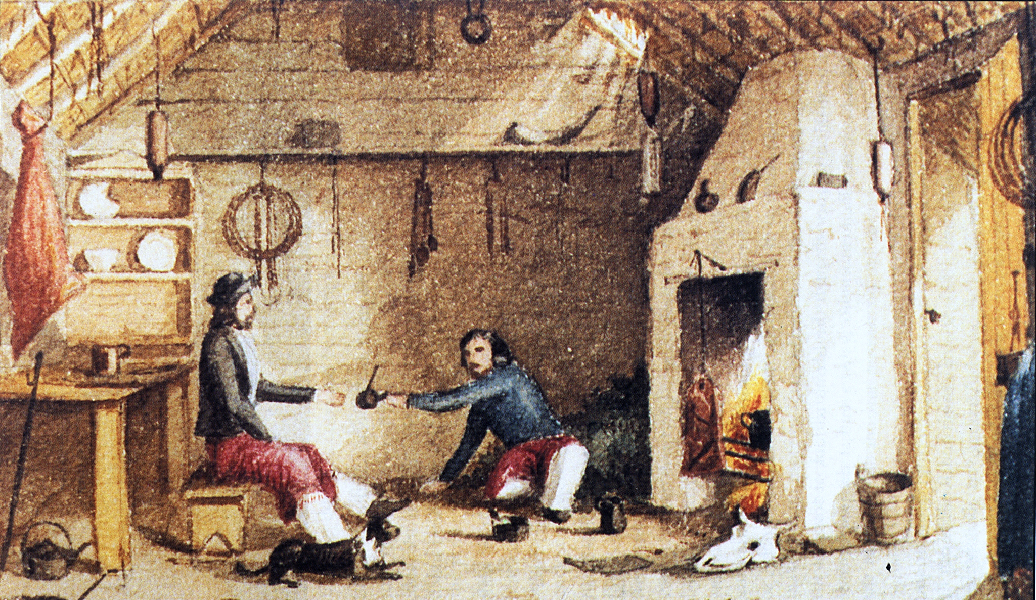 Falklands/Malvinas gauchos having mate at Hope Place - Saladero, East Falkland. Watercolour by William Pownell Dale, son of John Pownell Dale manager of Hope Place in the 1850s.